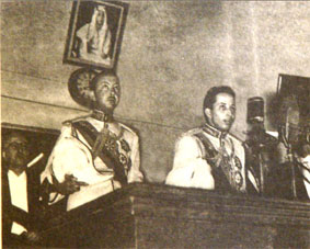 King Faisal II of Iraq with Abd ellah el Hashimi